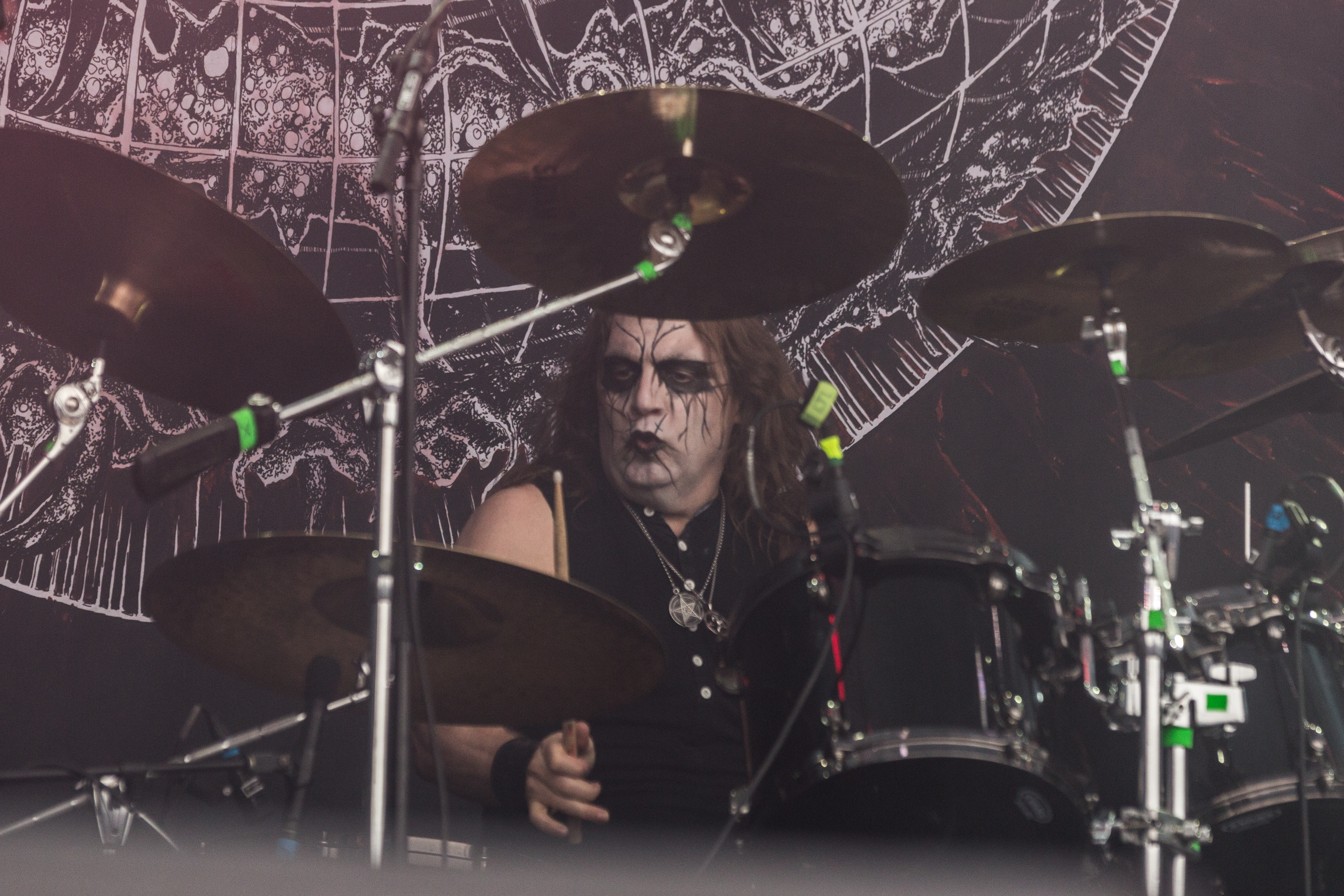 The Colombian black metal band Inquisition at the Party.San Metal Open Air 2017 in Obermehler-Schlotheim/Germany.